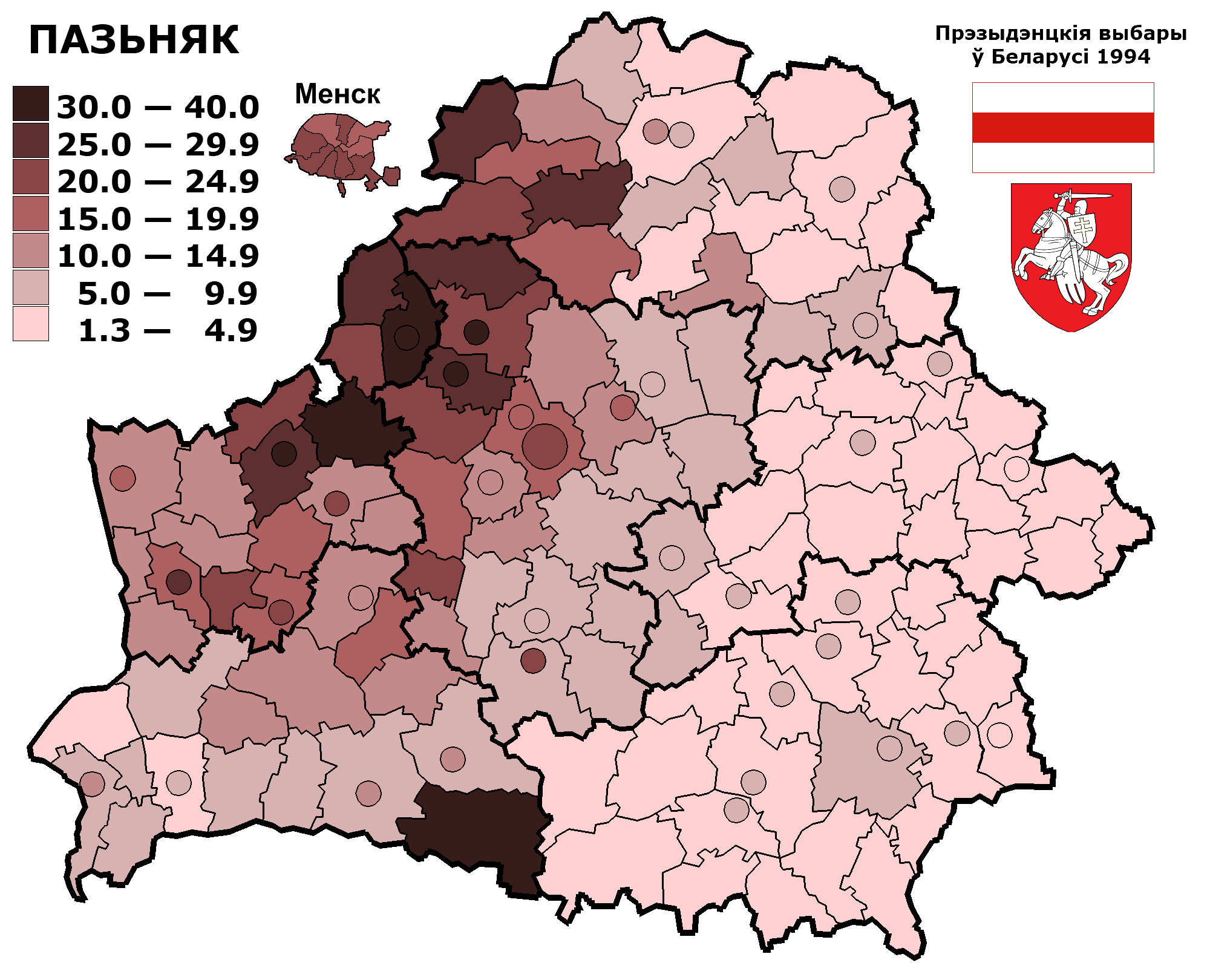 Map of Belarus showing percentage of votes for Zianon Pazniak in 1994 presidential election